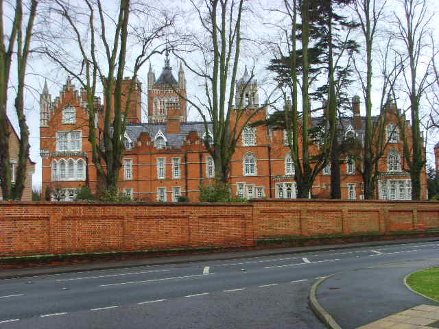 The Holloway Sanatorium buildings (now Virginia Park) from Stroude Road.